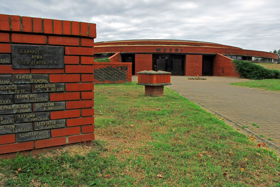 Syrmian Front memorial complex.